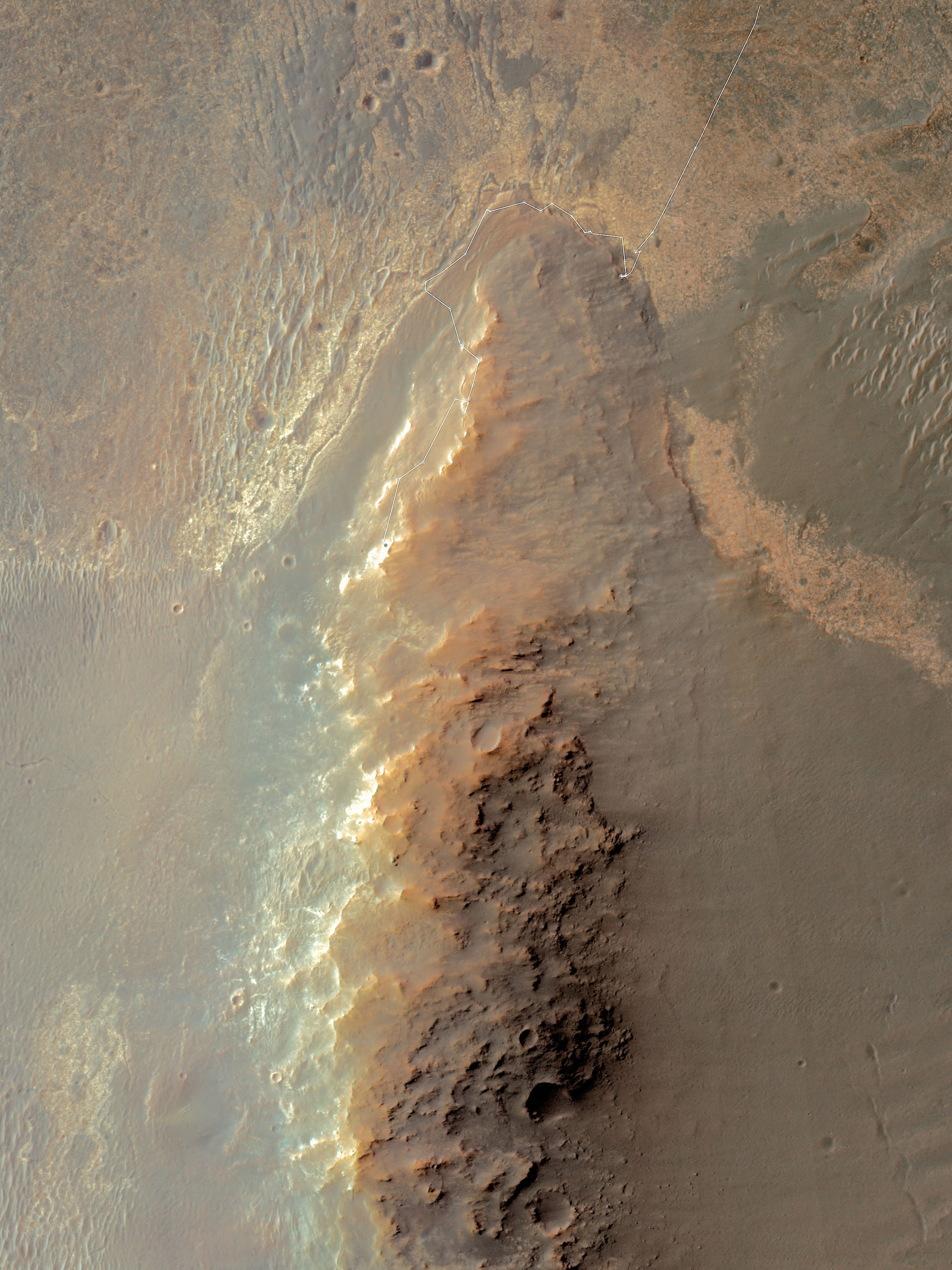 Opportunity rover traverse maps:Sol 3492 Detailed traverse maps.